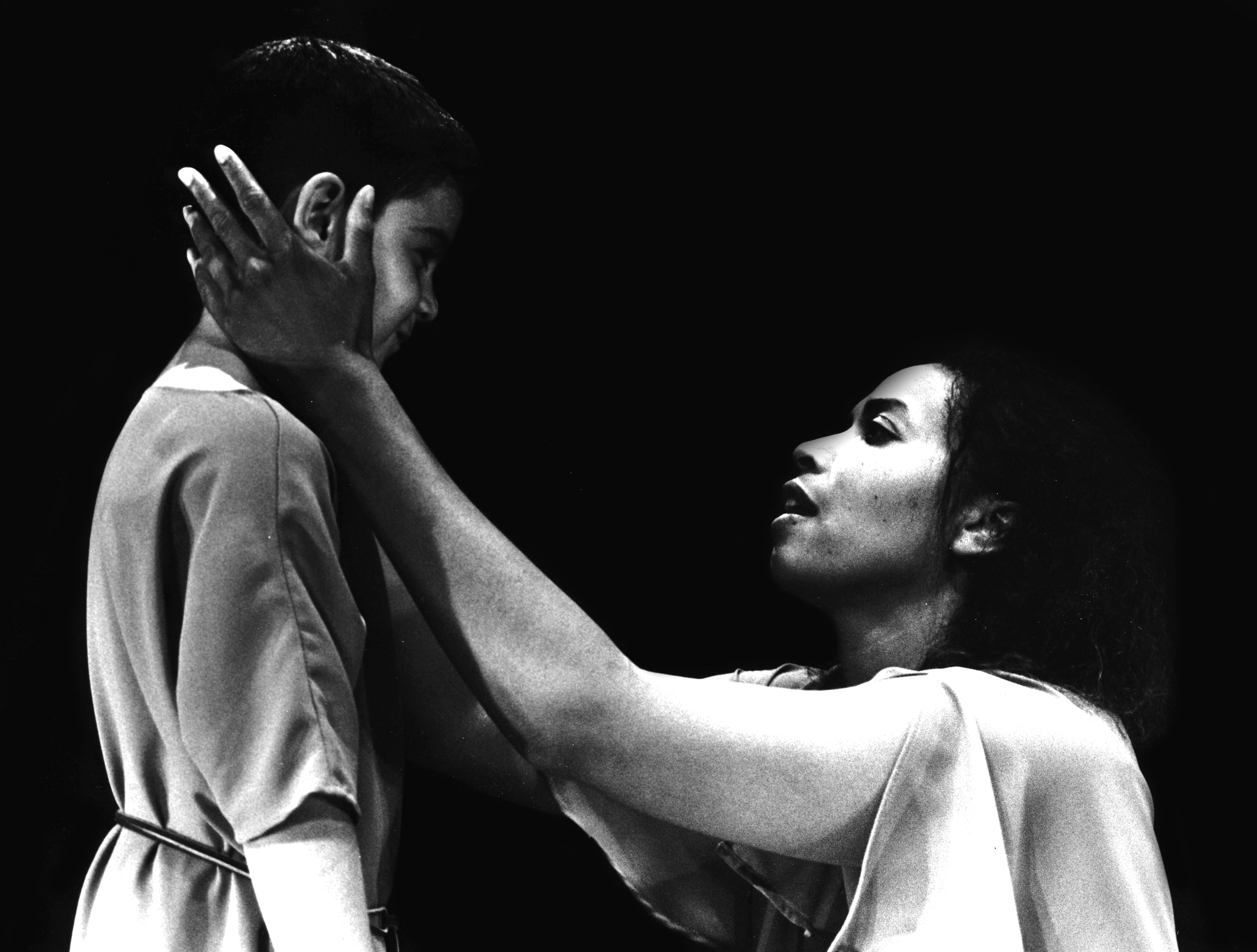 Aomawa Baker as Andromache in Brad Mays' production of Euripides' The Trojan Woman, presented at the ARK Theatre Company in Los Angeles in 2003.